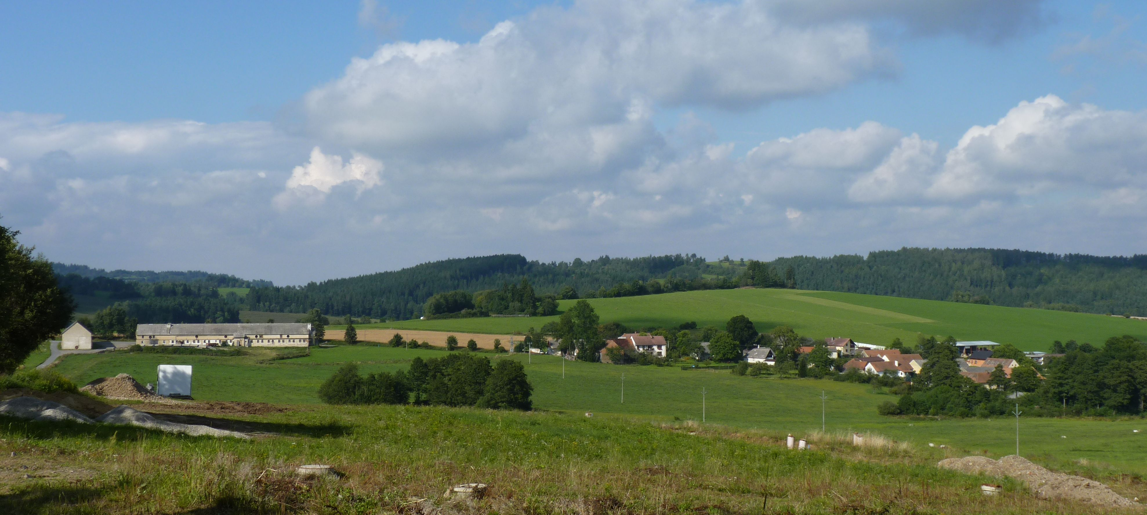 Přečín, Prachatice District, South Bohemian Region, Czech Republic